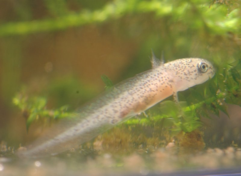 20-day-old Neurergus kaiseri larva. Picture taken in captivity, in France.